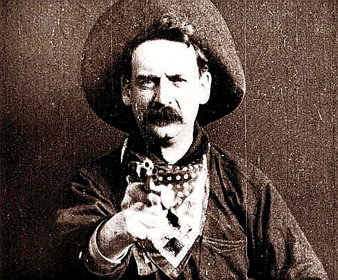 Screenshot from public domain film "Great Train Robbery" (1903) - Improved version